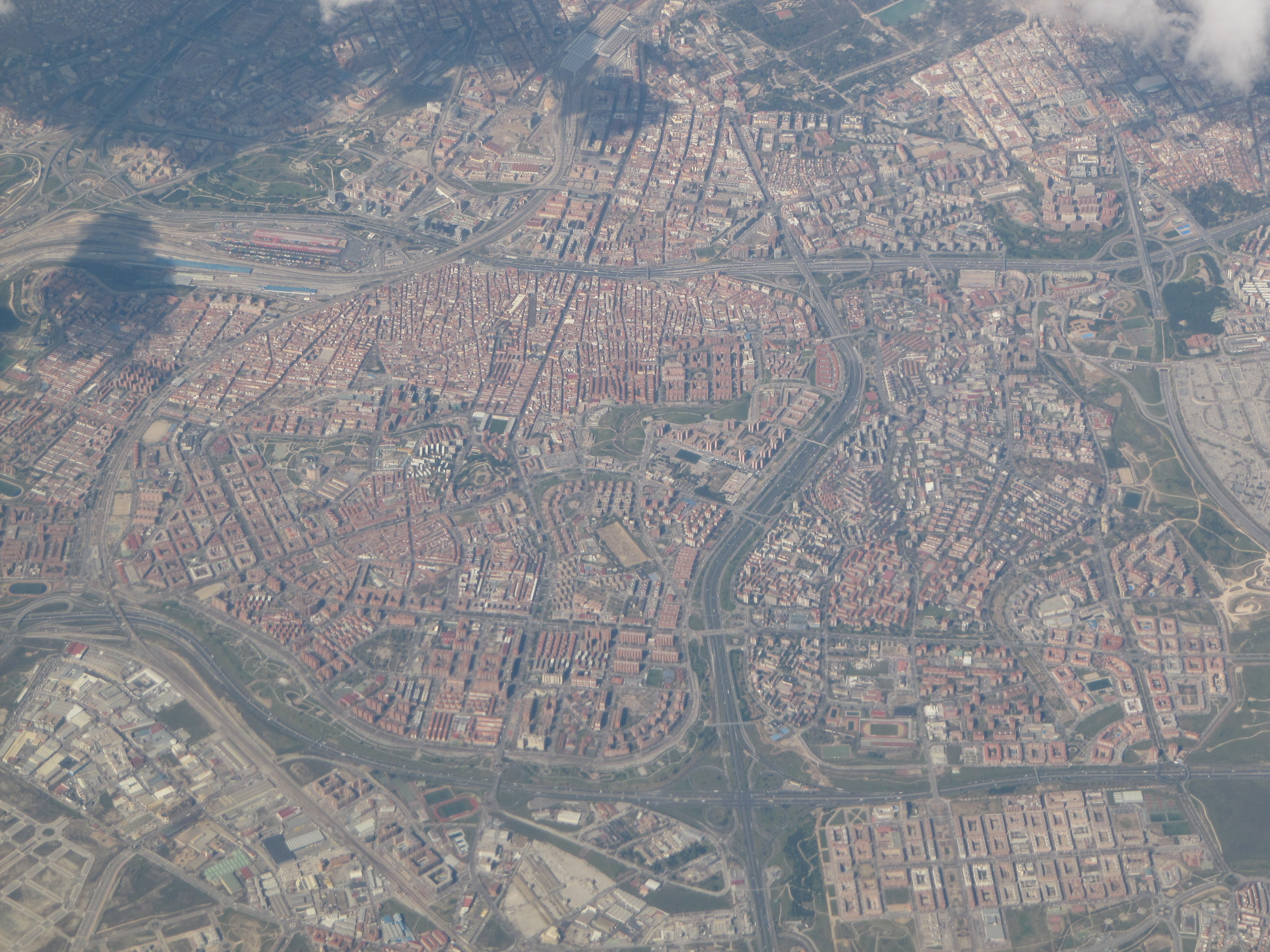 Puente de Vallecas